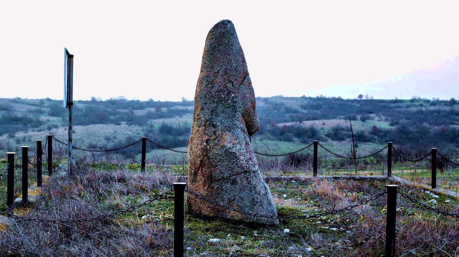 Chuchul kamuk menhir BG